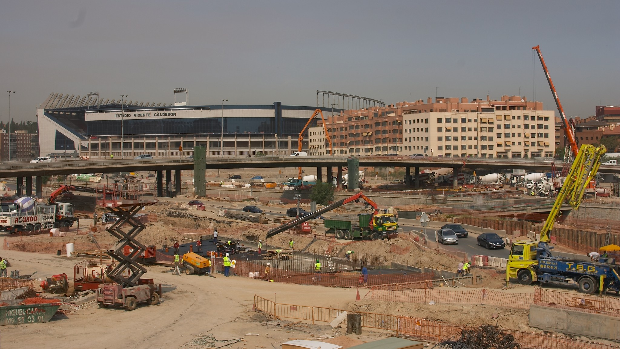 Madrid's M-30 motorway.